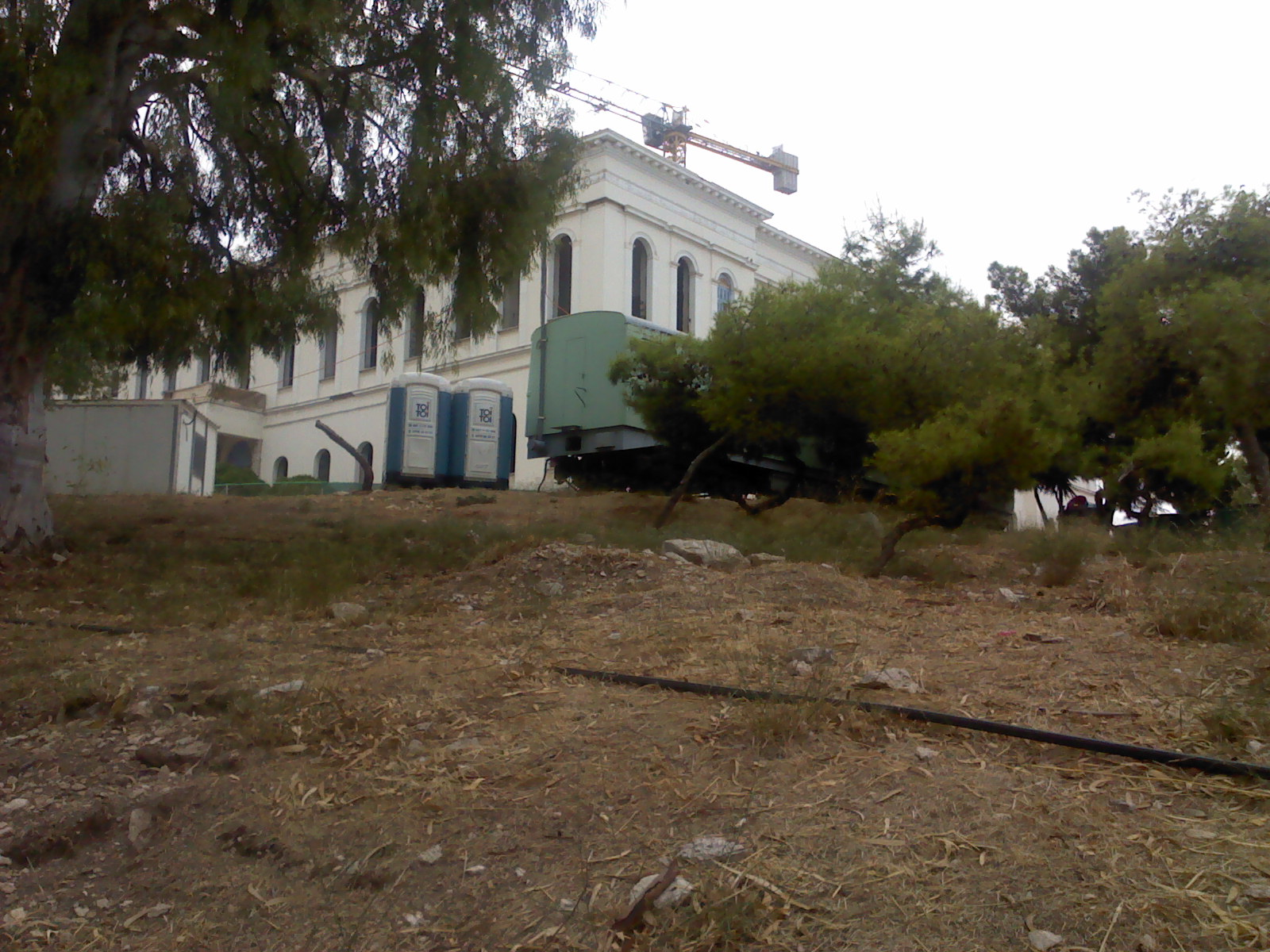 Xatzikiriakeio Pireas 2015